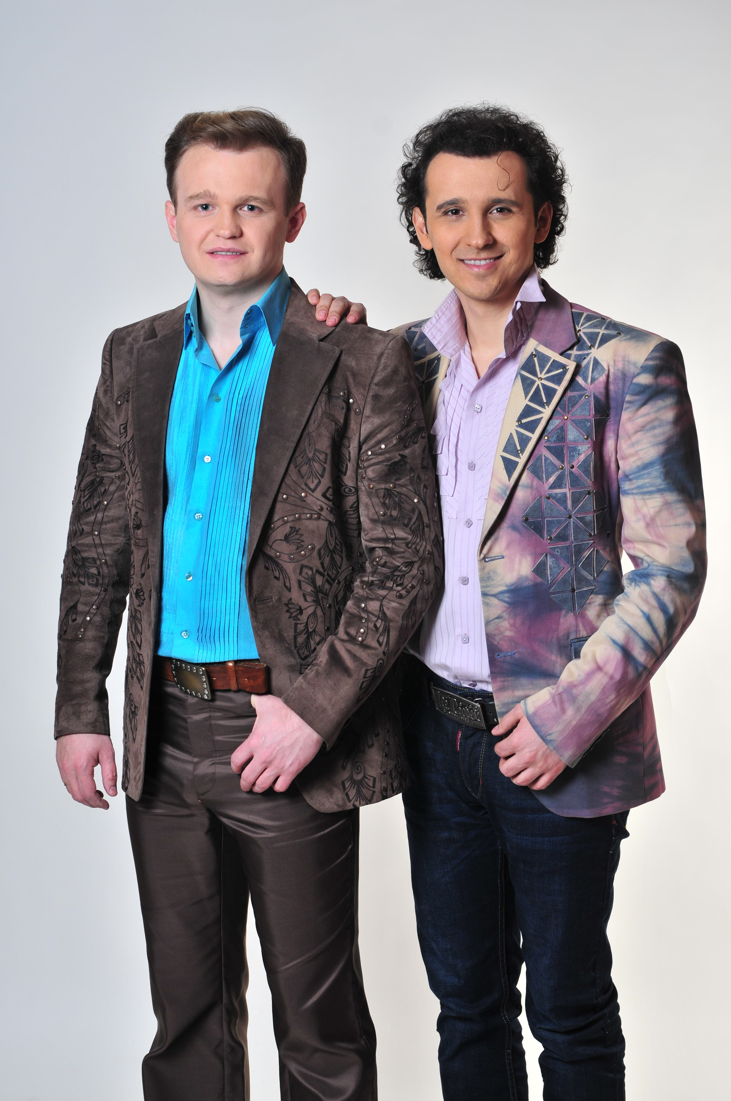 Yaremchuk brothers, Nazar Yaremchuk, Dmitry Yaremchuk, Ukrainian singer,Yaremchuky